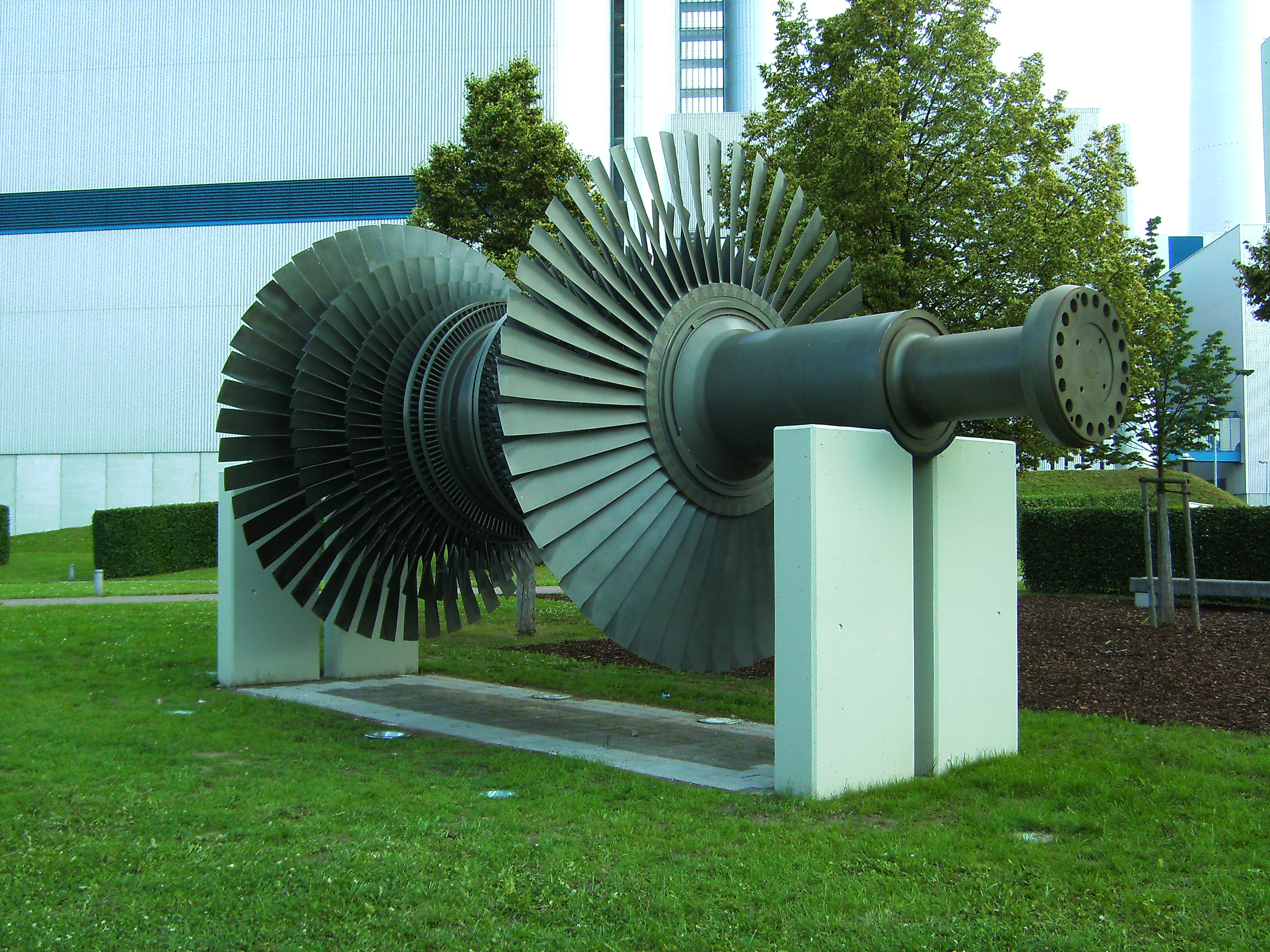 Turbine on display at Altbach Power Plant